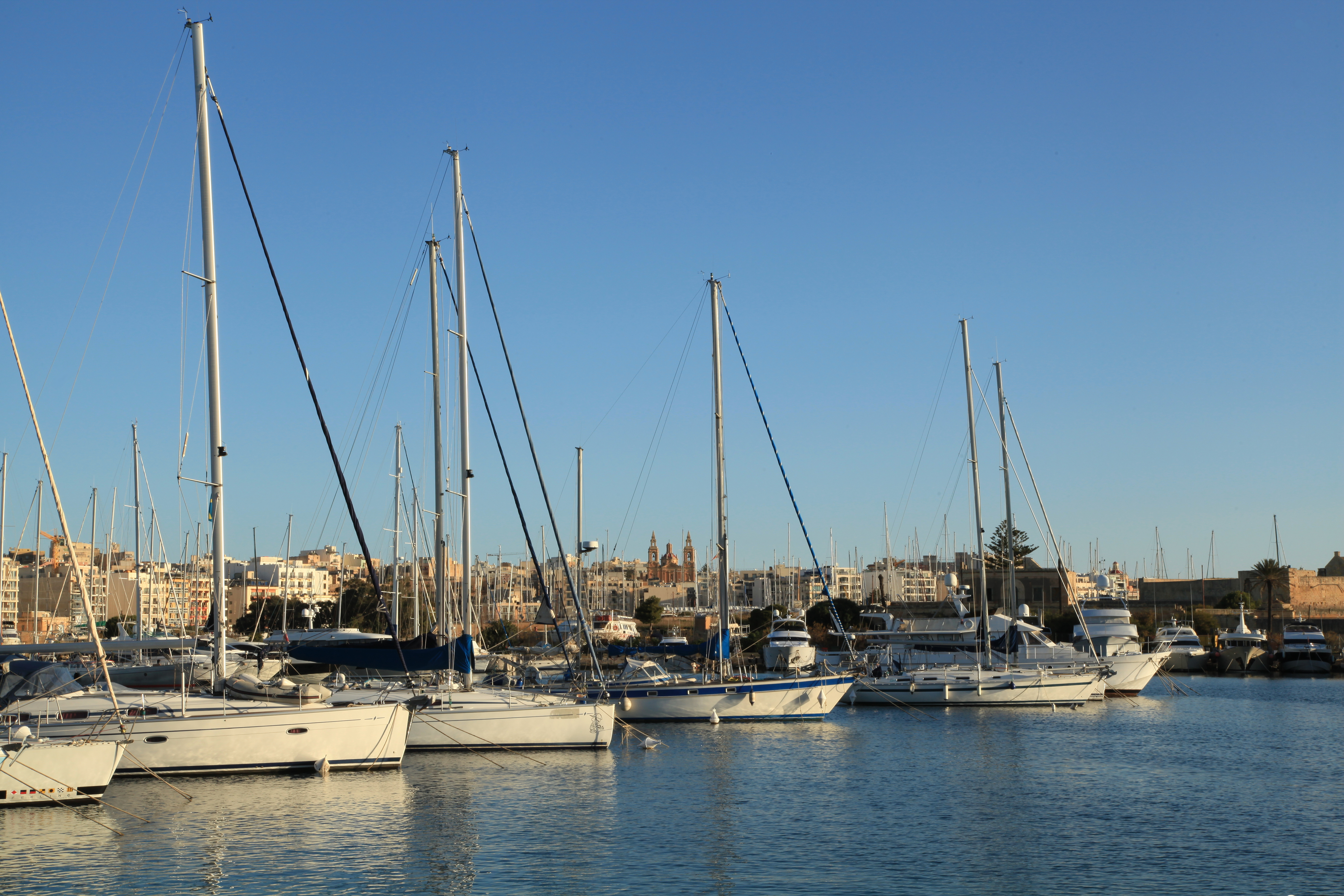 View from Ix-Xatt Ta' Xbiex in Ta' Xbiex to the harbour of Gżira, Malta